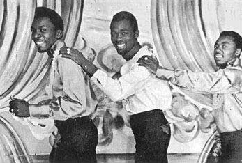 The Ethiopians